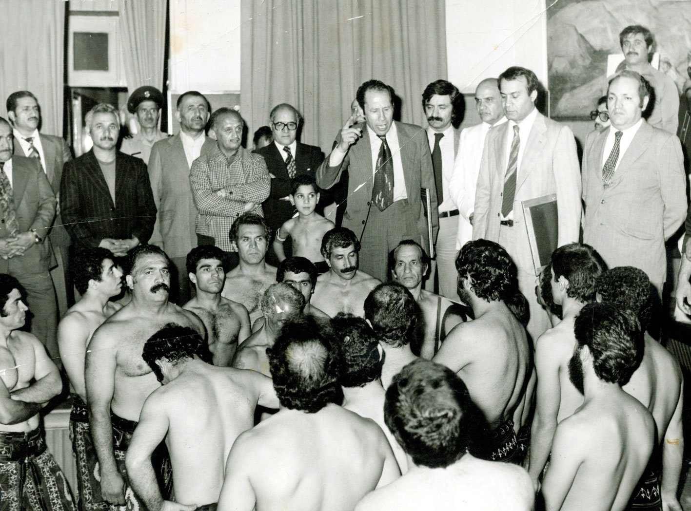 Sadegh Ghotbzadeh visits a zoorkhaneh of Tehran, 1979